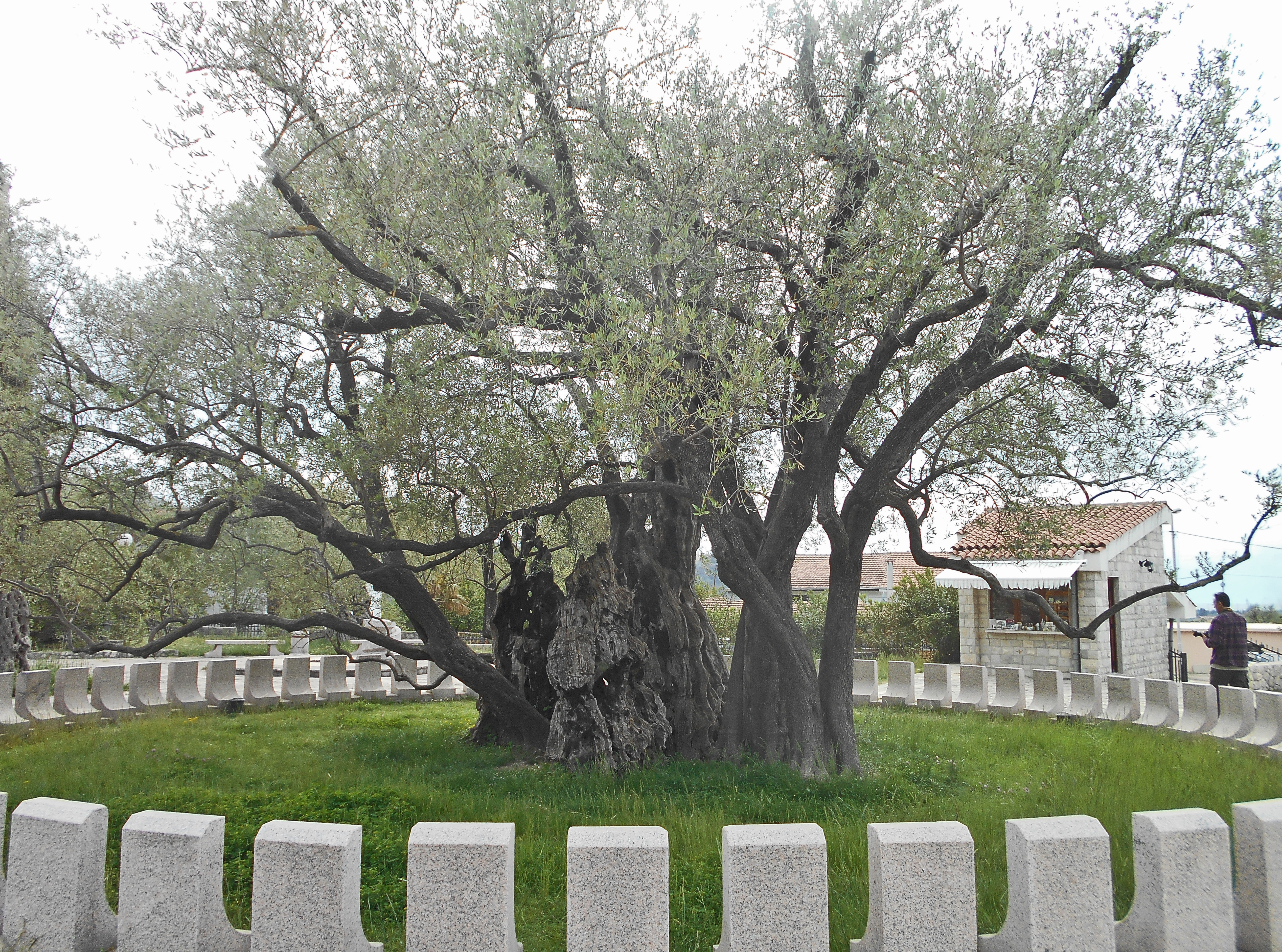 Natural monument "Stara maslina" (Old olive) in Bar, Montenegro. Olive older than 2000 years. It is considered the oldest European olive tree (Olea europaea) in Europe.